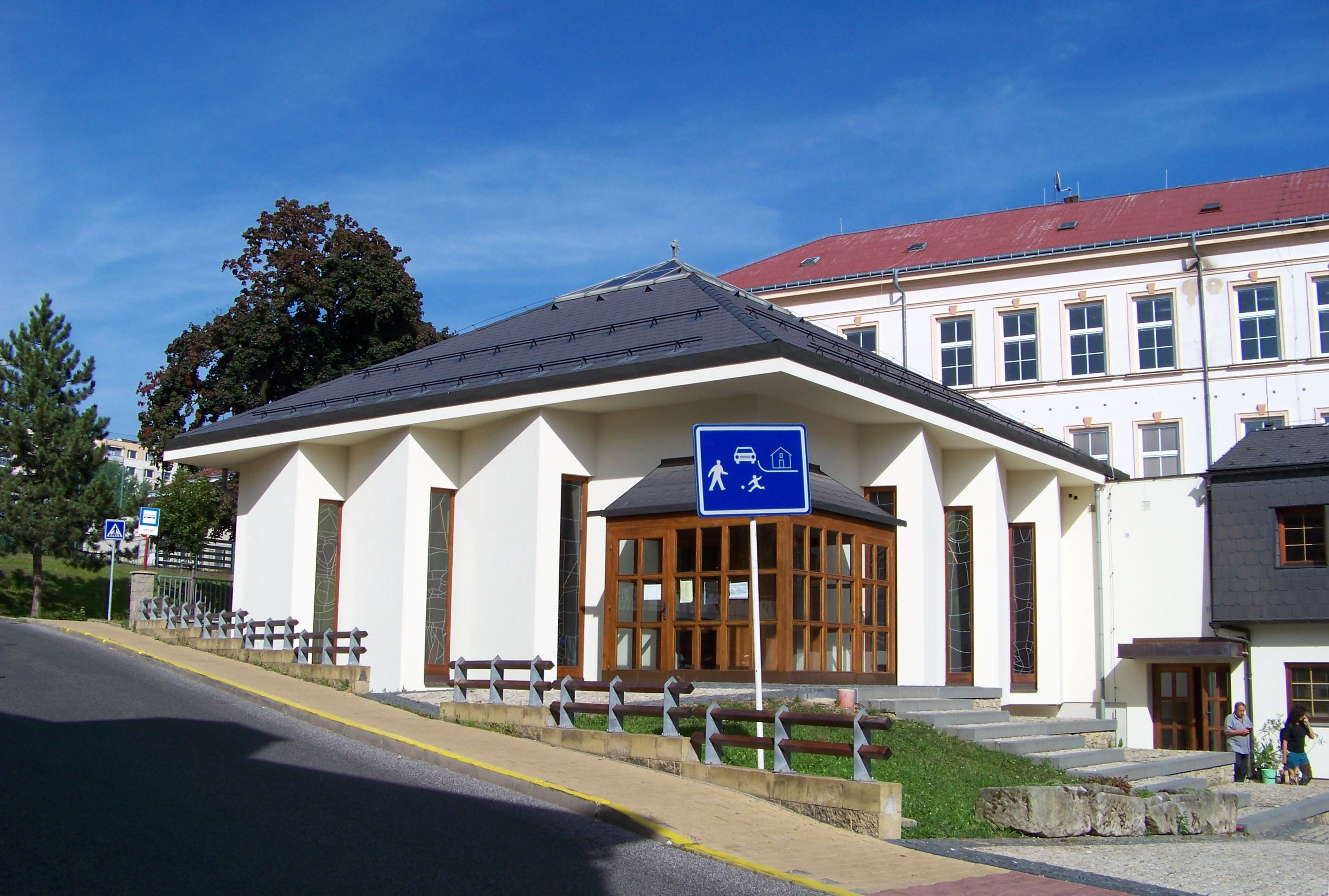 Liberec XXX-Vratislavice nad Nisou, Liberec Region, the Czech Republic. Nad Školou street, Resurrection Chapel.